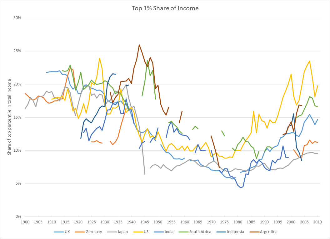 Chart showing the income of the top 1% based on data from Thomas Piketty's Capital in the Twenty-First Century. TS9.5 for emerging countries, TS8.2 for US, TS9.2 for Germany, UK, and Japan.